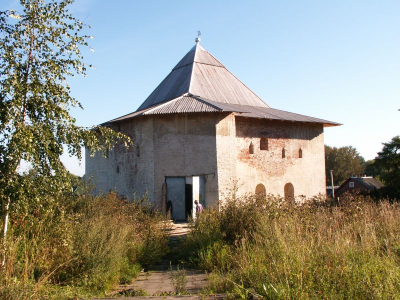 Vyazma - Spas Tower.